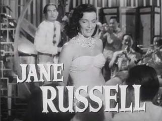 Cropped screenshot of Jane Russell from the film Macao